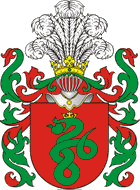 Herb Wąż Waz Clan File:POL COA Wąż.svg is a vector version of this file. It should be used in place of this raster image when not inferior. File:Herb Wąż.PNG File:POL COA Wąż.svg For more information, see Help:SVG. In other languages